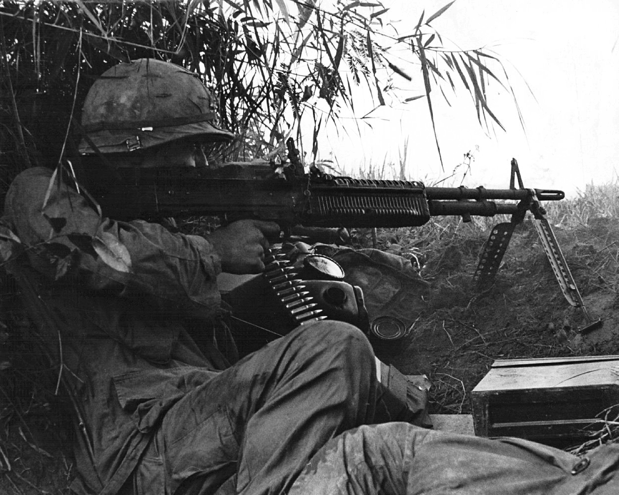 Sergeant Gerald Laird firing a machine gun, Company A, 1st Battalion, 502nd Infantry, 101st Airborne Division, Vietnam.